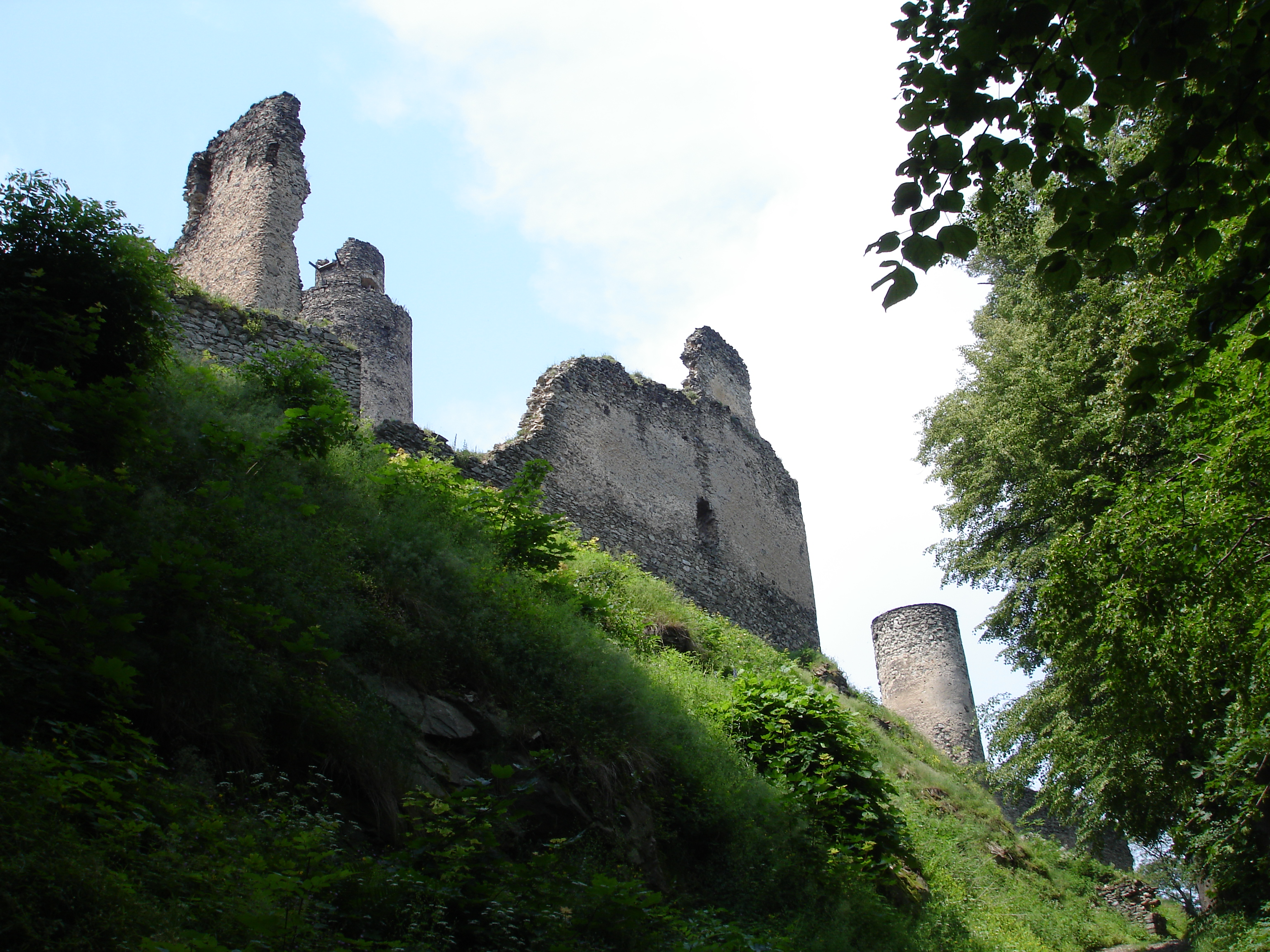 Castle Kostomlaty in České středohoří, Czech Republic